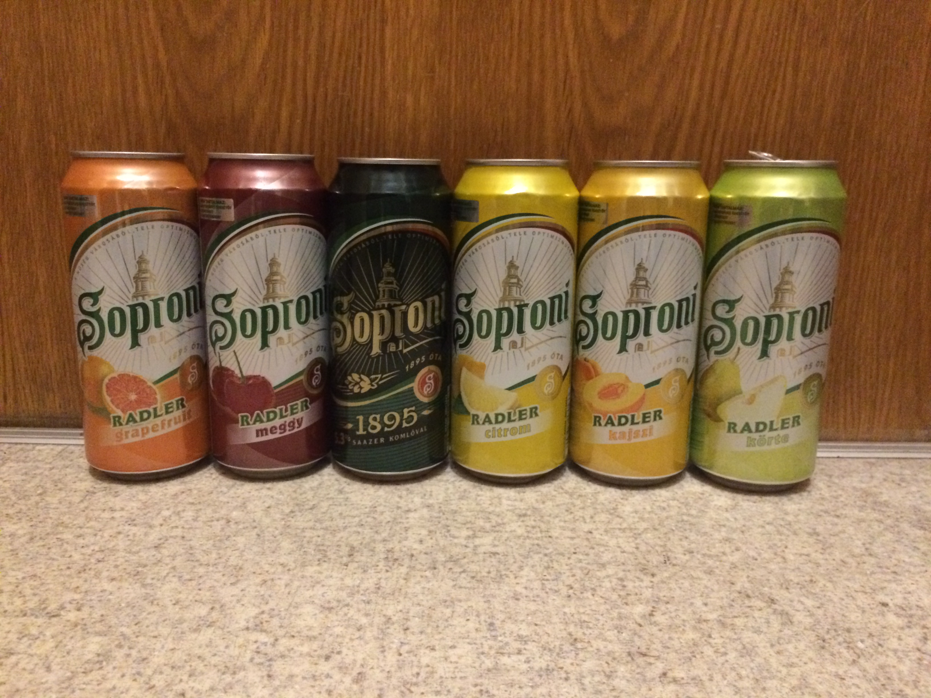 Soproni fruit beers